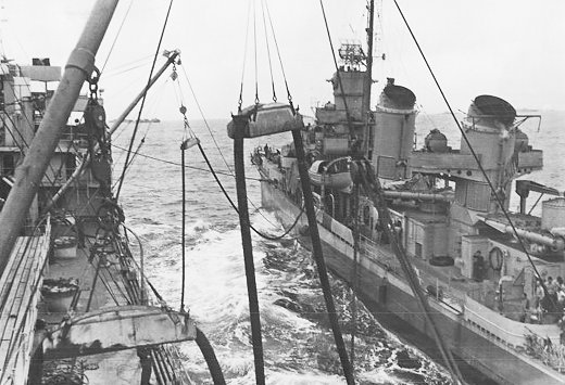 The U.S. Navy fleet oiler USS Chicopee (AO-34) refueling a Fletcher-class destroyer. As the destroyer is not yet equipped with the twin 40mm mounts outboard of the second stack, the photo was probably taken in 1943.